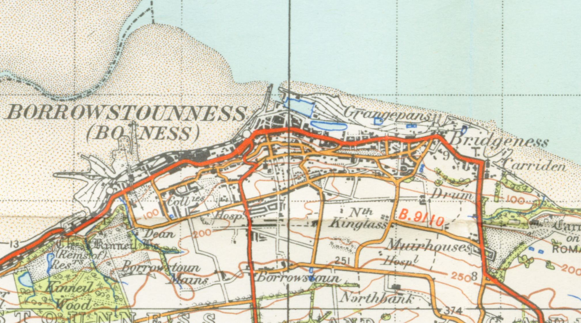 map of Borrowstounness 1 inch to the mile scale scanned at 600 DPI